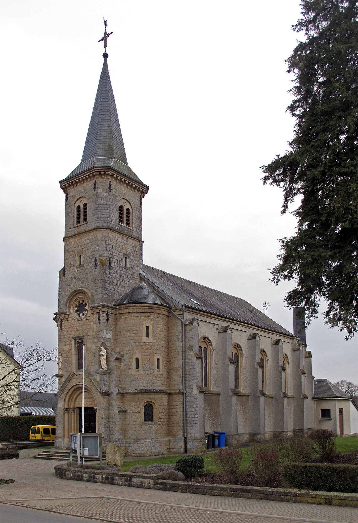 Church of Kahler, Luxembourg